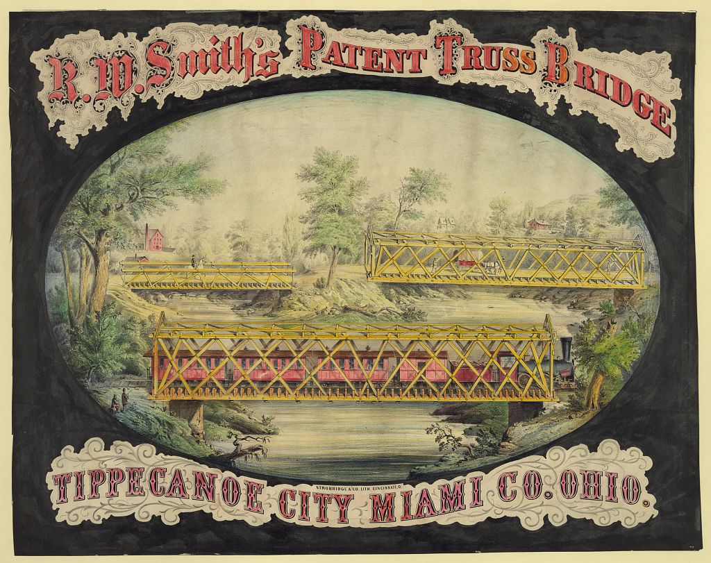 R.W. Smith's patent truss bridge, Tippecanoe City, Miami Co., Ohio / Strobridge & Co. Lith., Cincinnati, O.